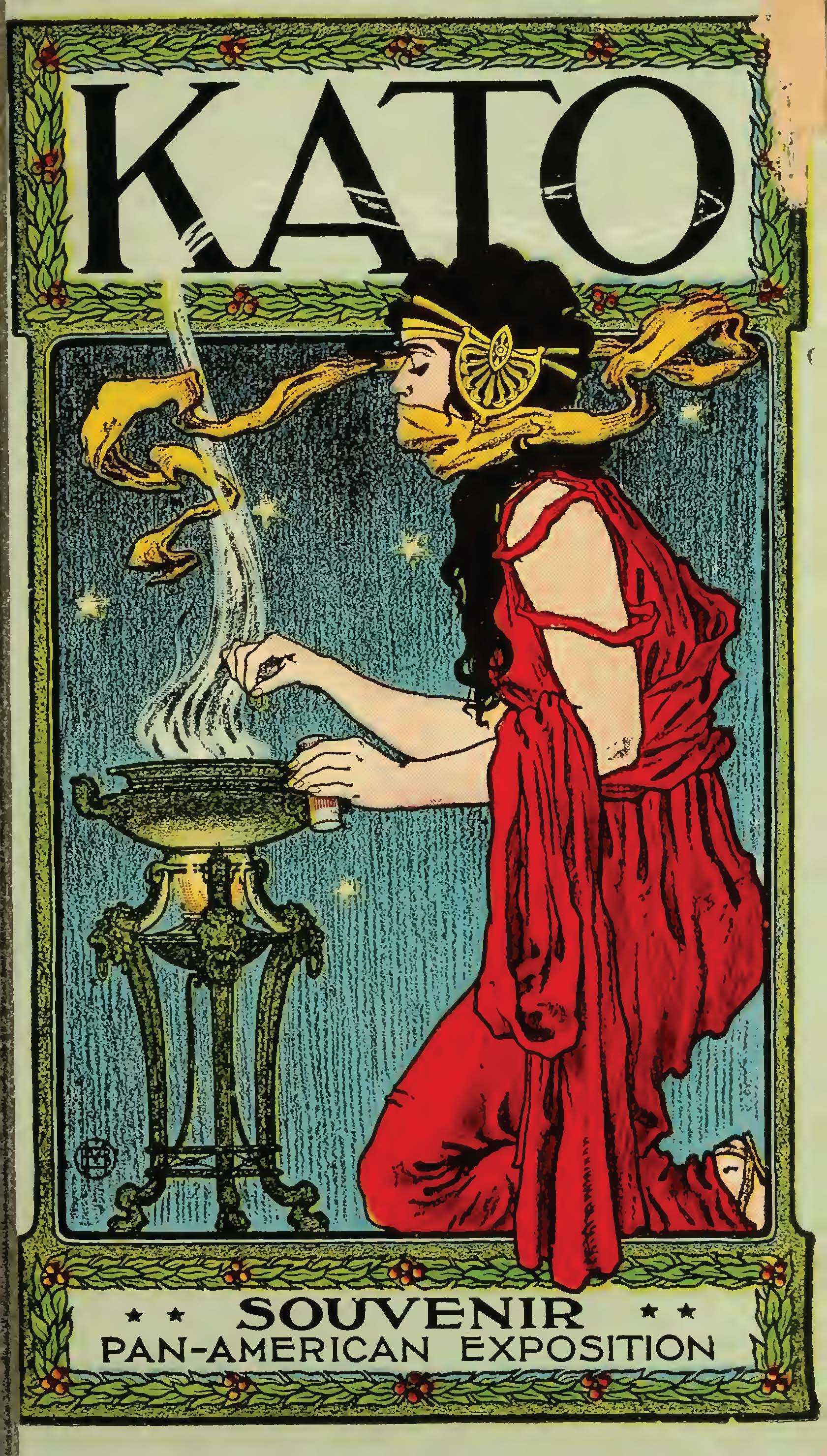 The title page of a brochure in the Pan-American Exposition, published by Kato Coffee Co., one of the earliest companies which developed instant coffee. Extracted from the Internet Archive ( which was scanned from the Winterthur Library collection.